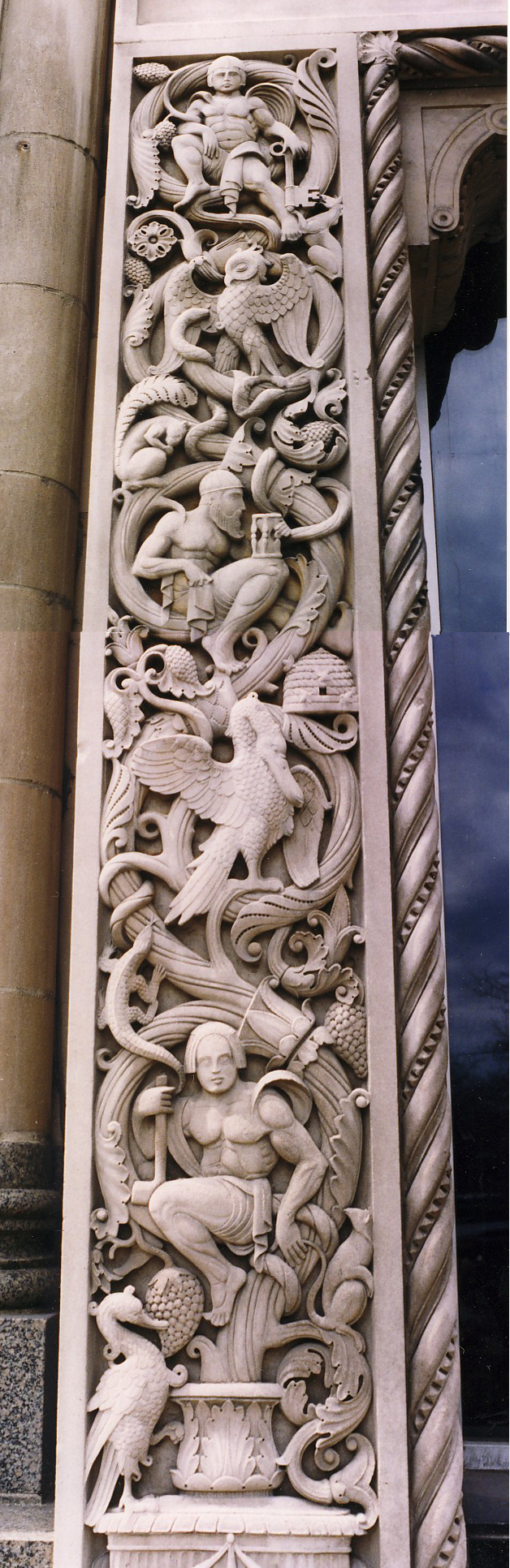 photo by Einar Einarsson Kvaran aka Carptrash 20:17, 17 January 2007 (UTC) . Detail from a Detroit bank, sculpture by Ulysses Ricci